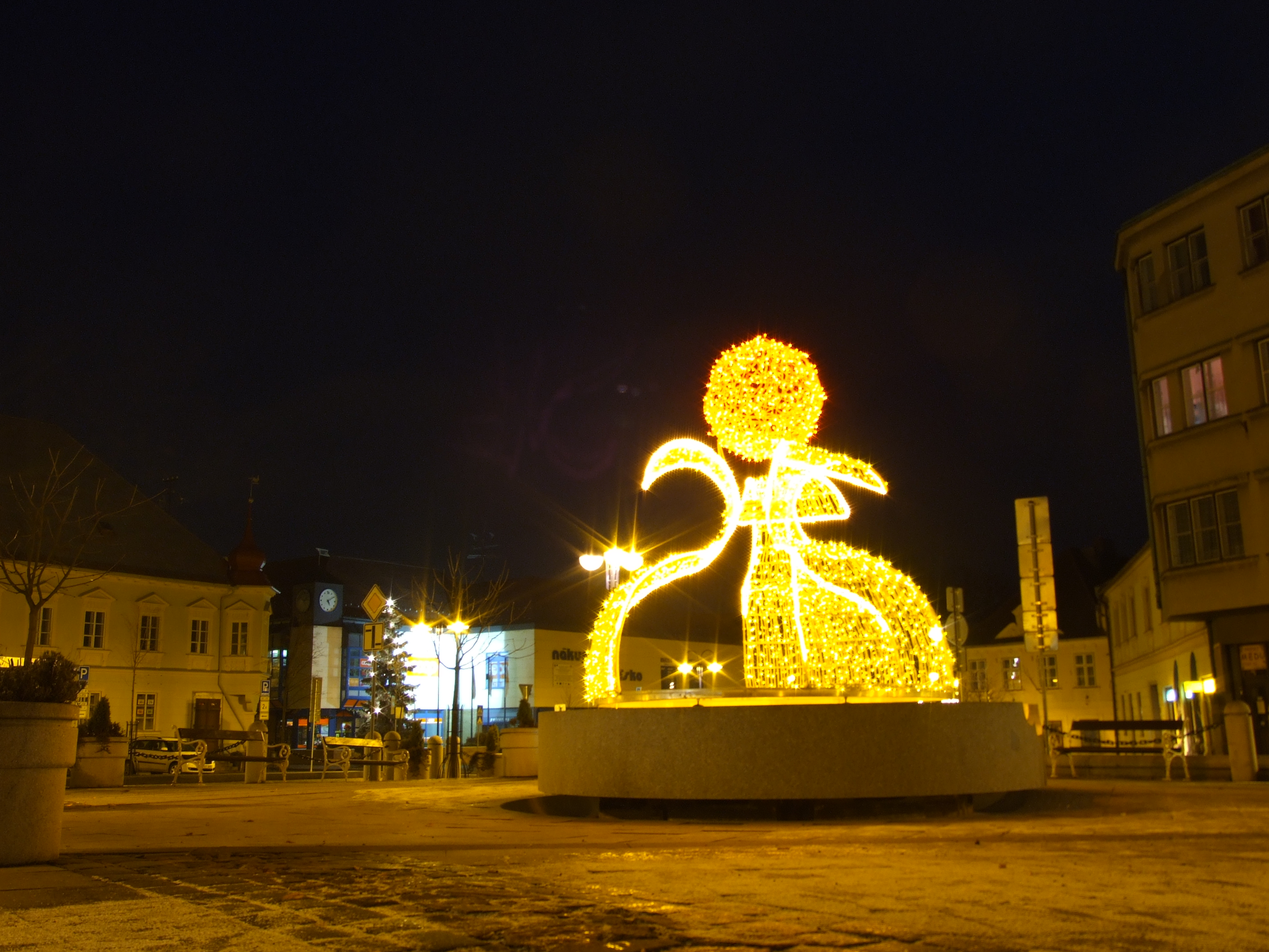 Náměstí T. G. Masaryka square in Jindřichův Hradec, South Bohemian Region, CZhelp